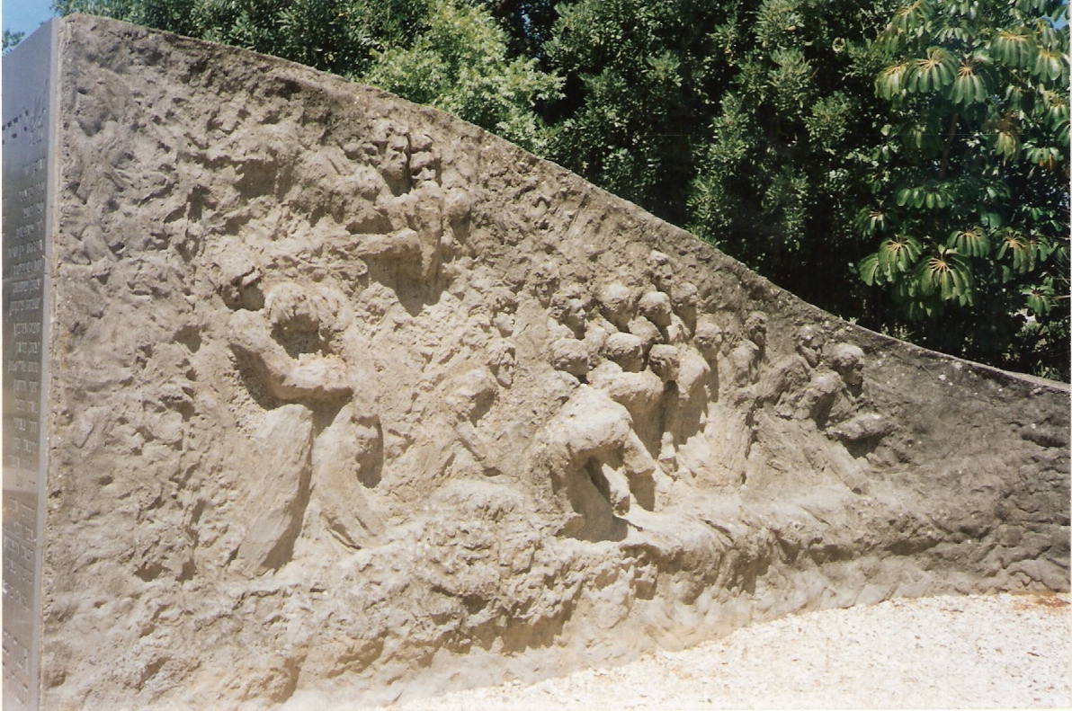 memorial to the fallen soldiers, bet-keshet, israel.